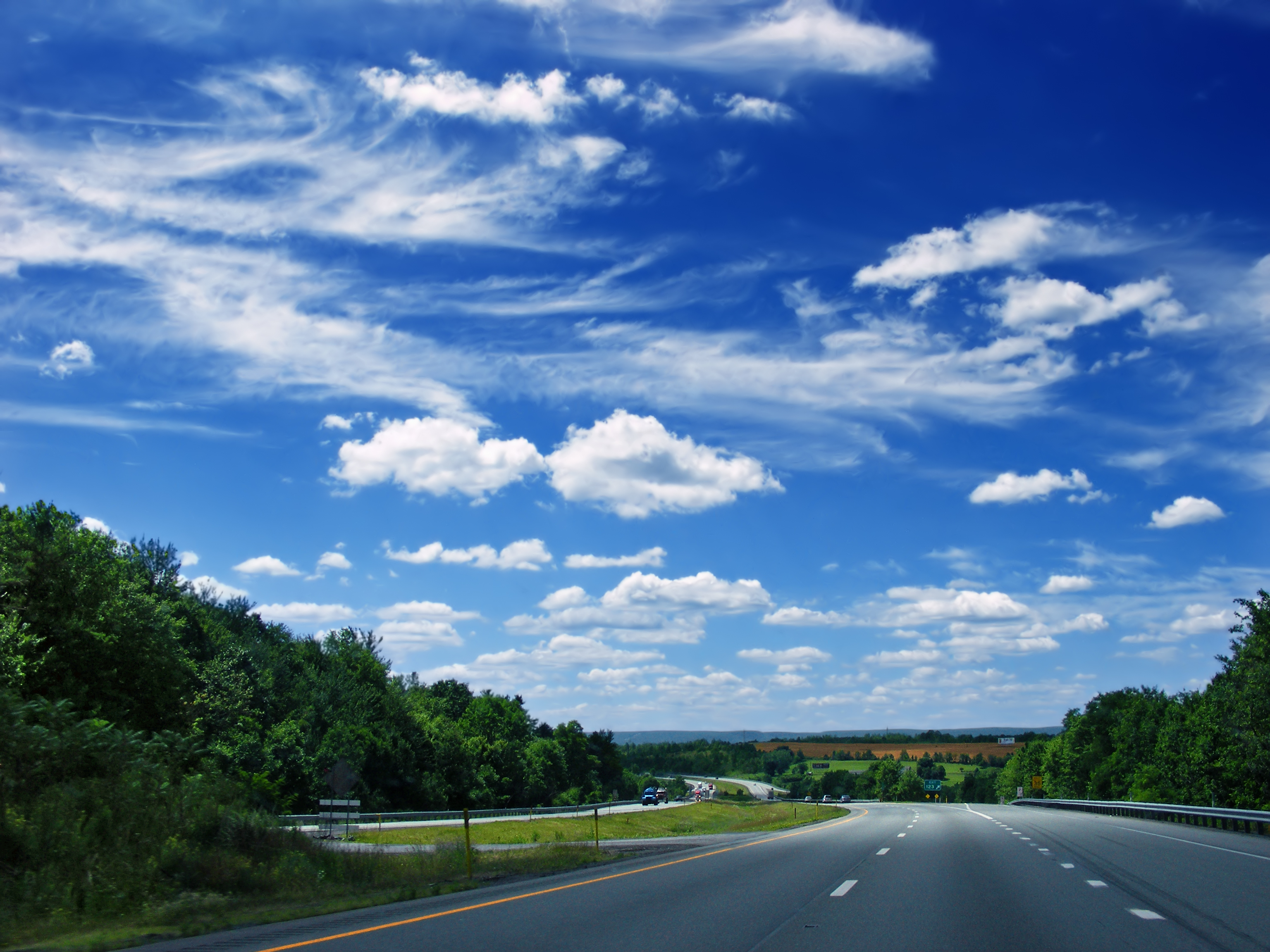 Mixed cloud formations, Interstate 80, Bradford Township, Clearfield County.